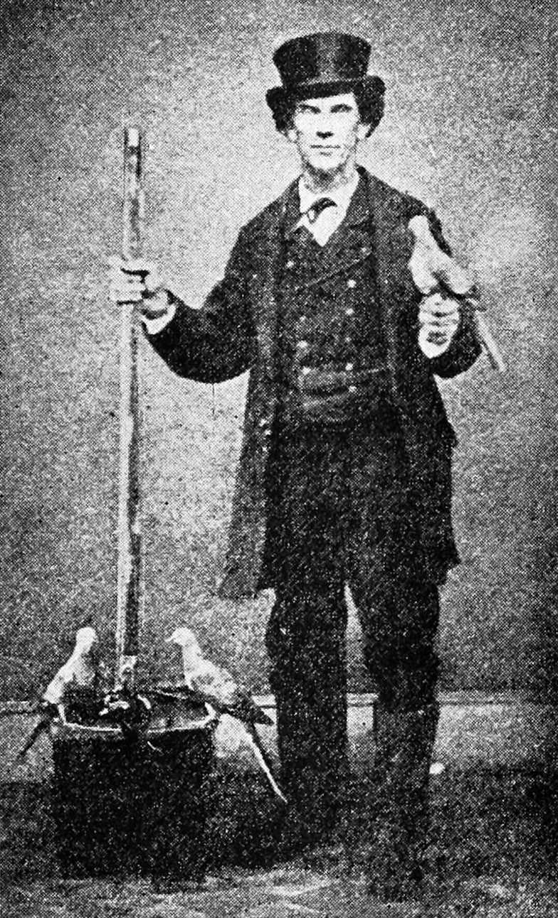 Trapper Albert Cooper with blind decoys used to capture wild Passenger Pigeon, 1870